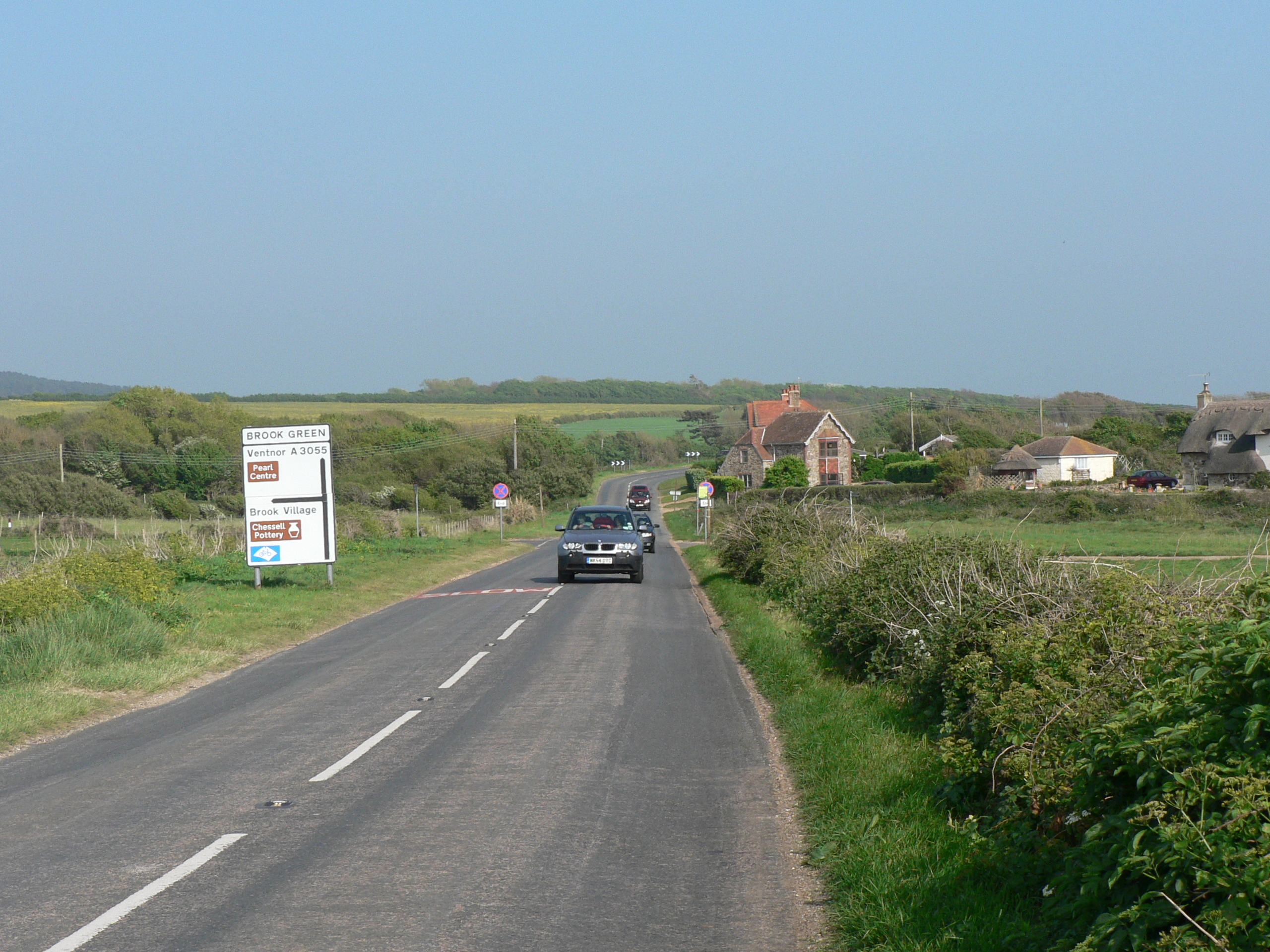 Part of the A3055 Military Road, looking East towards the bus stop for Brook Chine, near Brook, Isle of Wight.